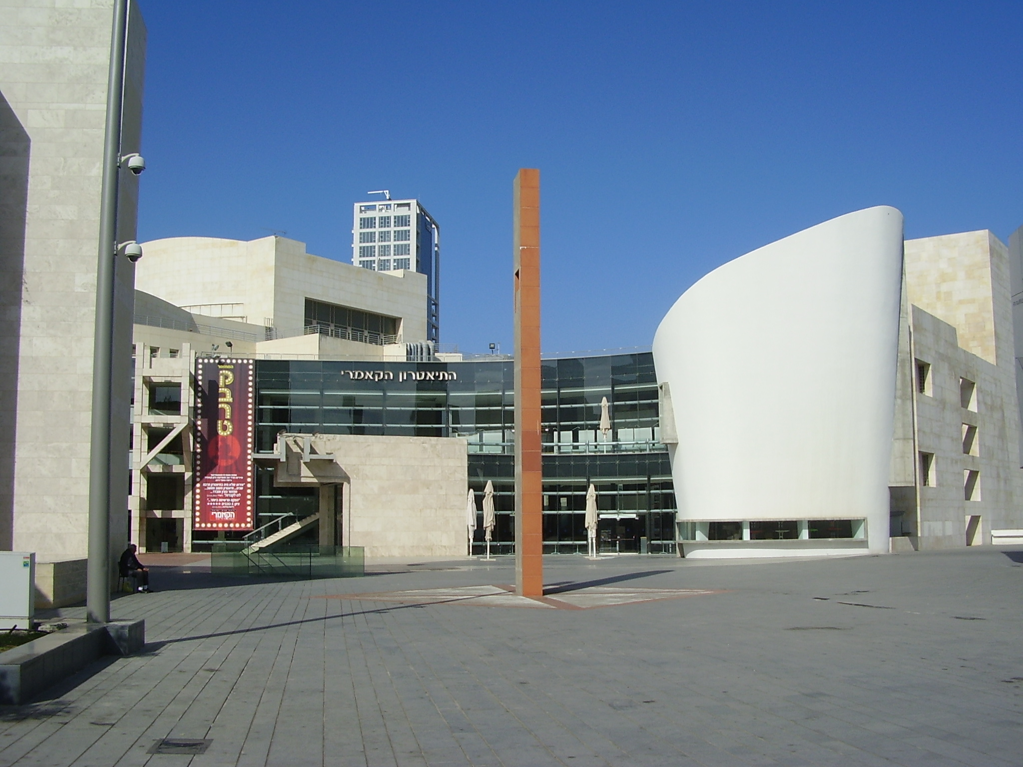 Cameri Theater in Tel Aviv